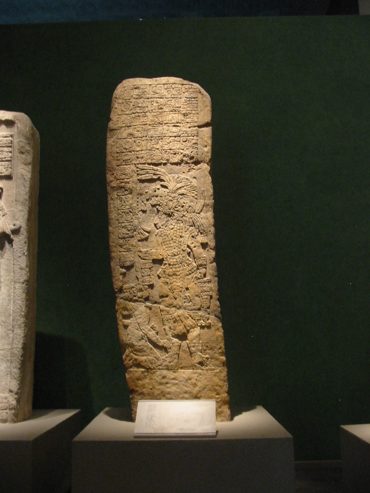 Stele 18 from Yaxchilan Chiapas on display at the National Museum of Anthropology in Mexico City. King Itzamnaaj B'alam II standing over a prisoner called Aj Popol Chay of Lacanha